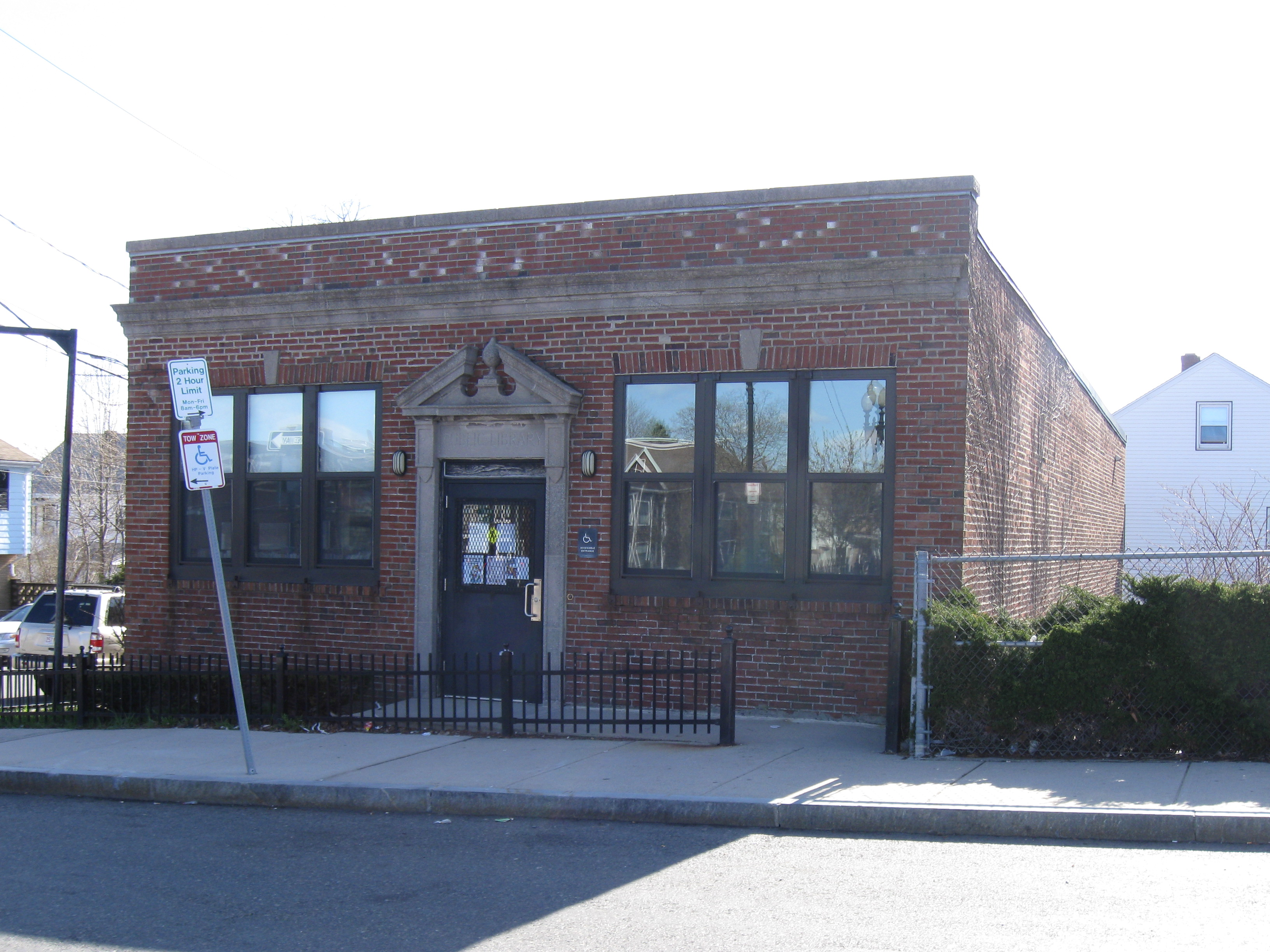 Boston Public Library: Orient Heights Branch --- 18 Barnes Avenue, East Boston 02128